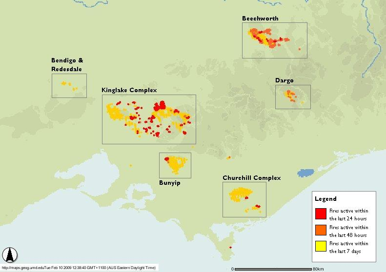 Selected imagery from the NASA Fire Information for Resource Management System (FIRMS) project, generated by FIRMS' Web Fire Mapper (ArcIMS). The area shown is the eastern part of the Australian state of Victoria, as at 10 February 2009, 12:38pm local time (AEDT), showing the effects of the 2009 Victorian bushfires. Annotated version.